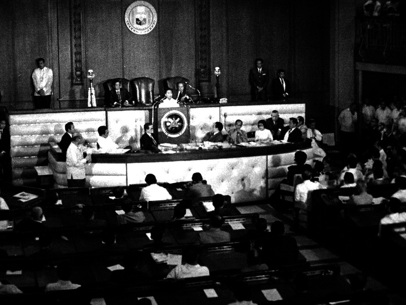 Philippine President Ferdinand E. Marcos delivering his 1972 State Of The Nation Address (SONA)